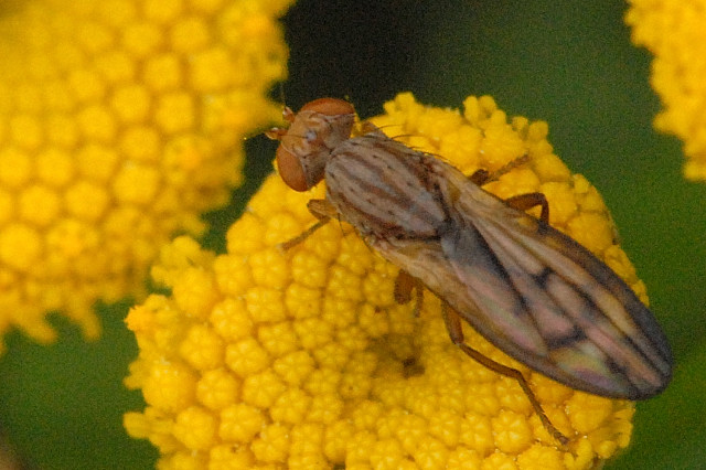 Opomyza germinationis from Commanster, Belgian High Ardennes .